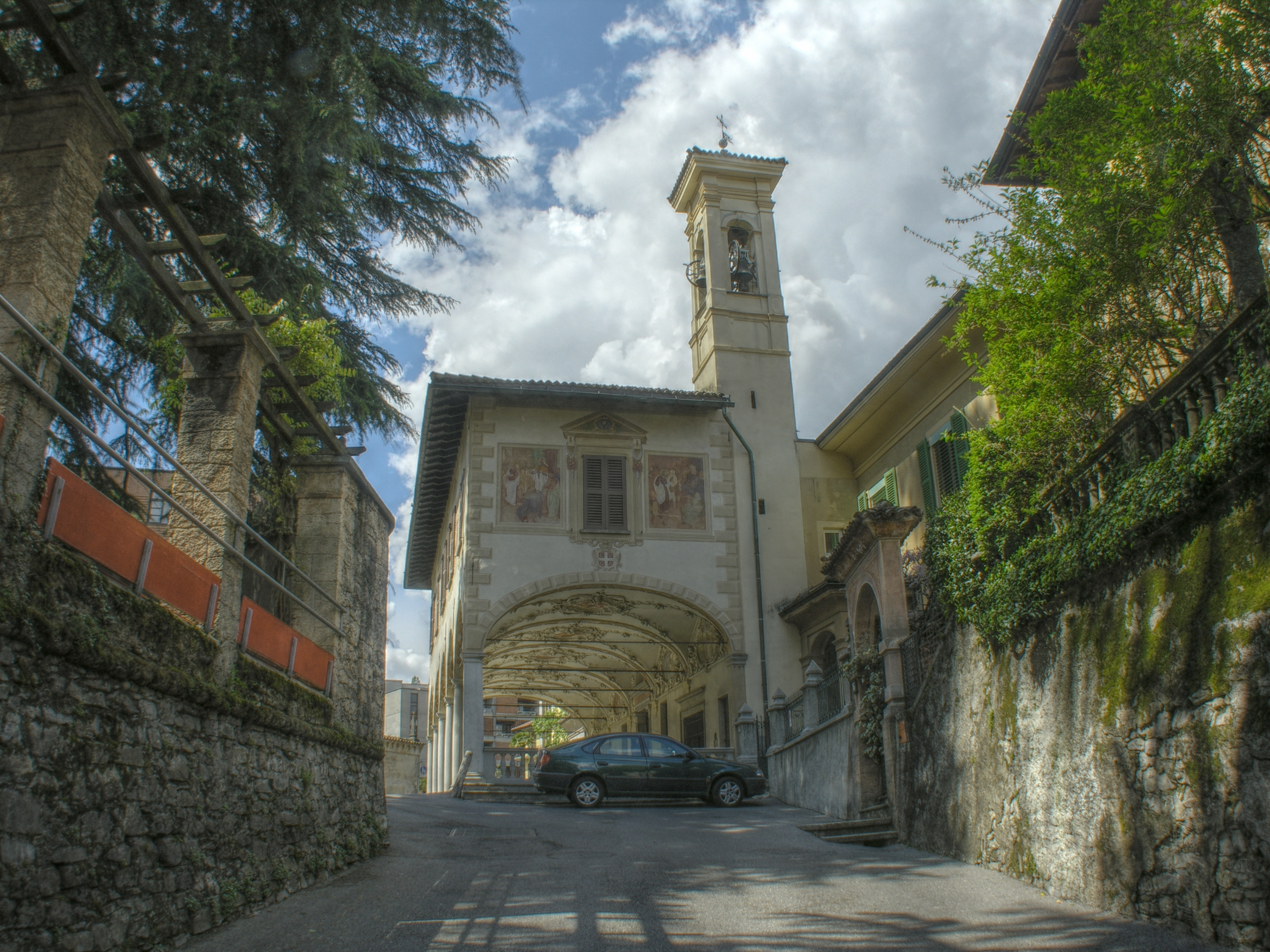 Lugano, Tessin, Switzerland - Santa Maria di Loreto church - Side view